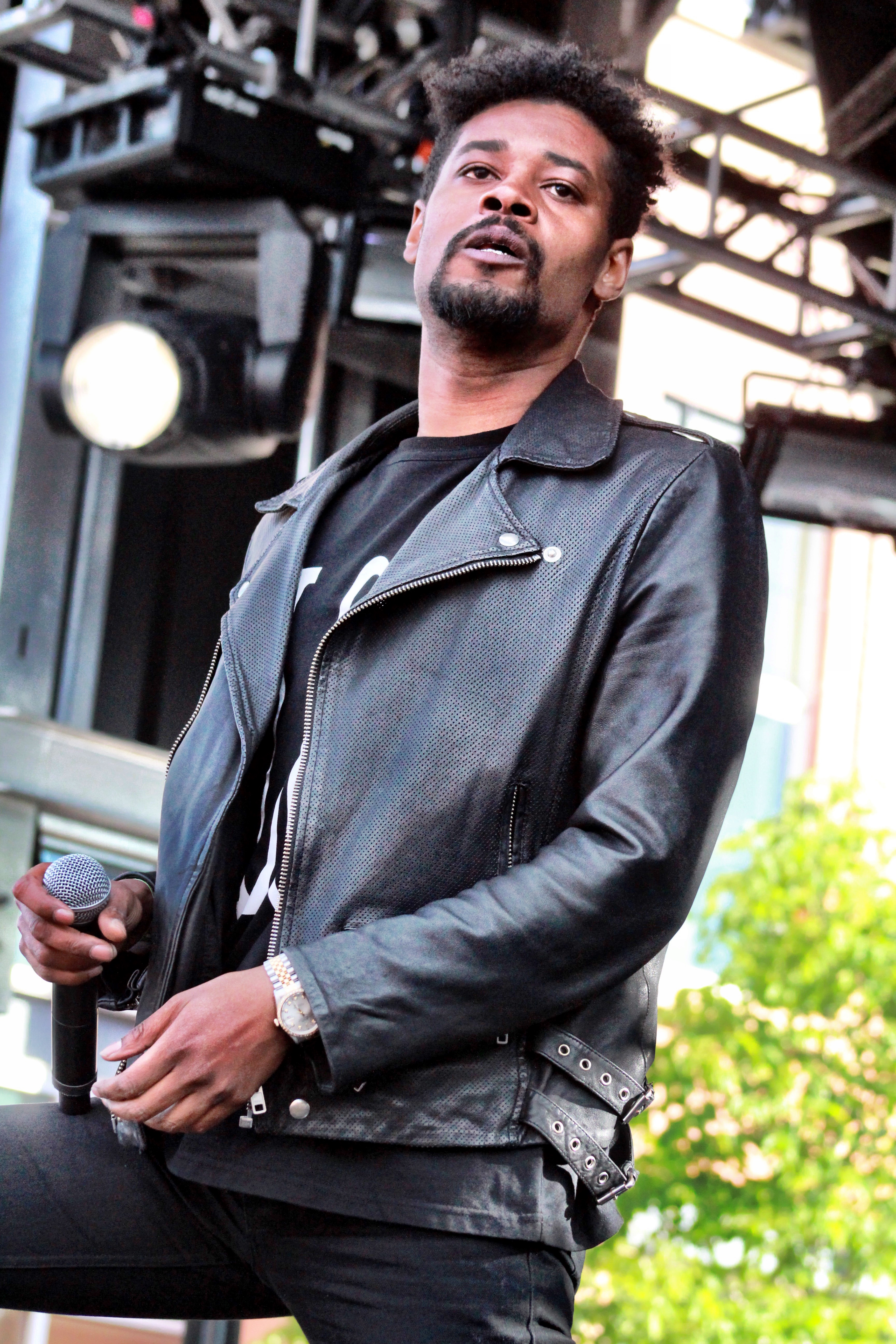 Hip-hop artist Danny Brown performing live at the Project Pabst music festival on May 20, 2017.